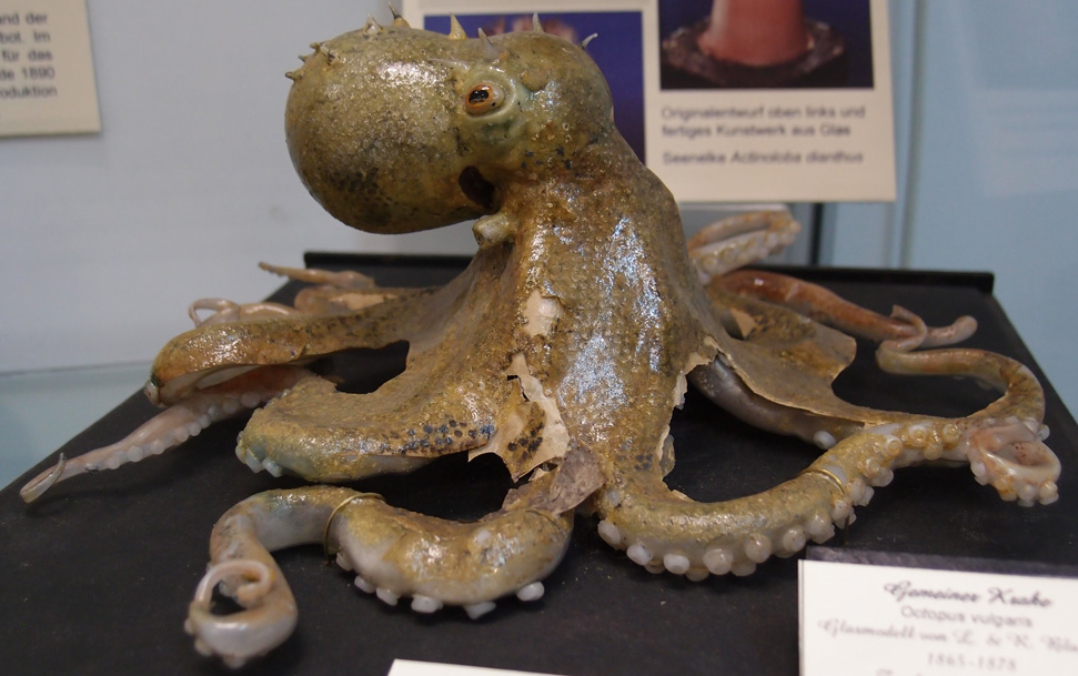 Model from the zoological collection Rostock, Germany. see also for more information on the models